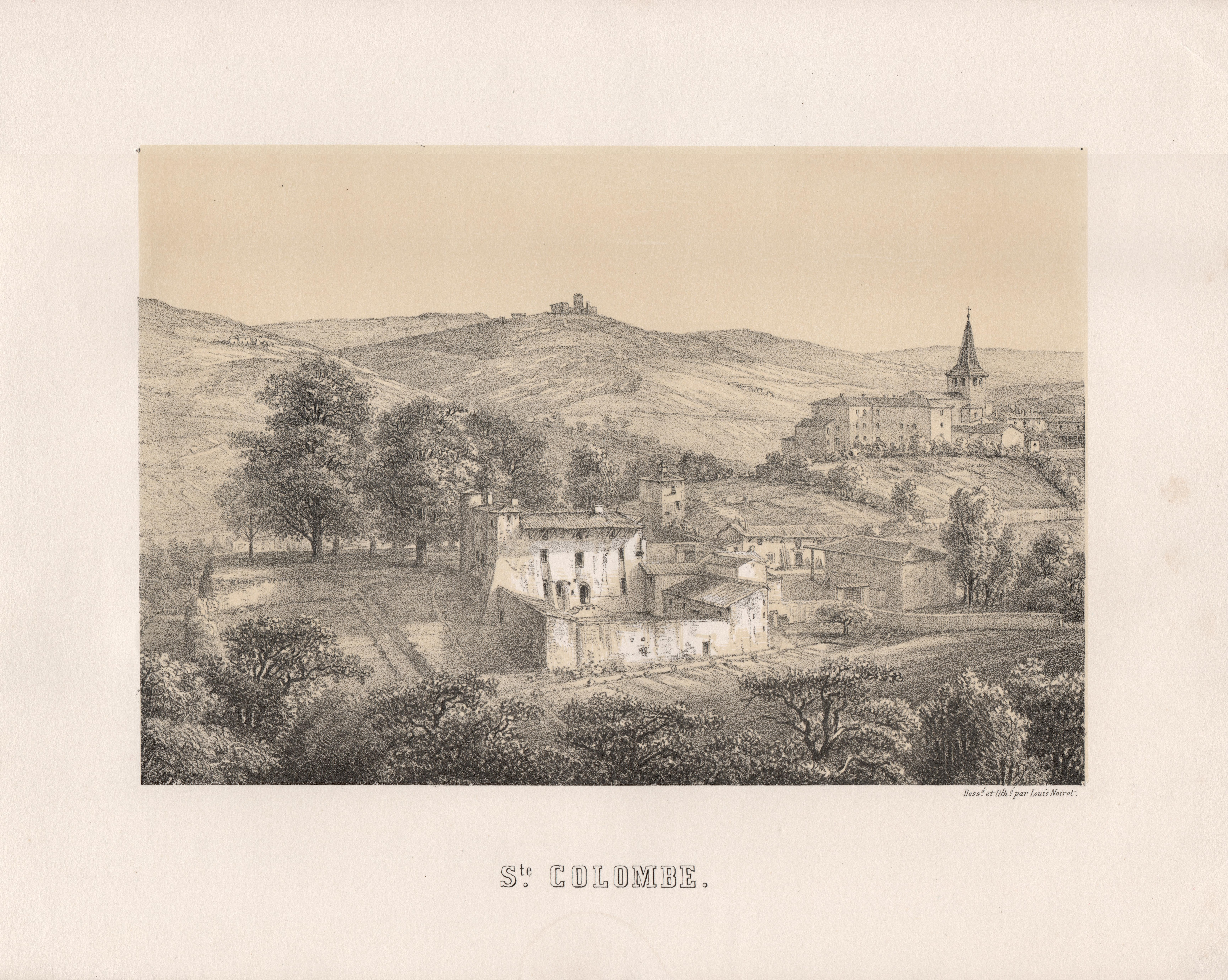 View of Sainte-Colombe-sur-Gand